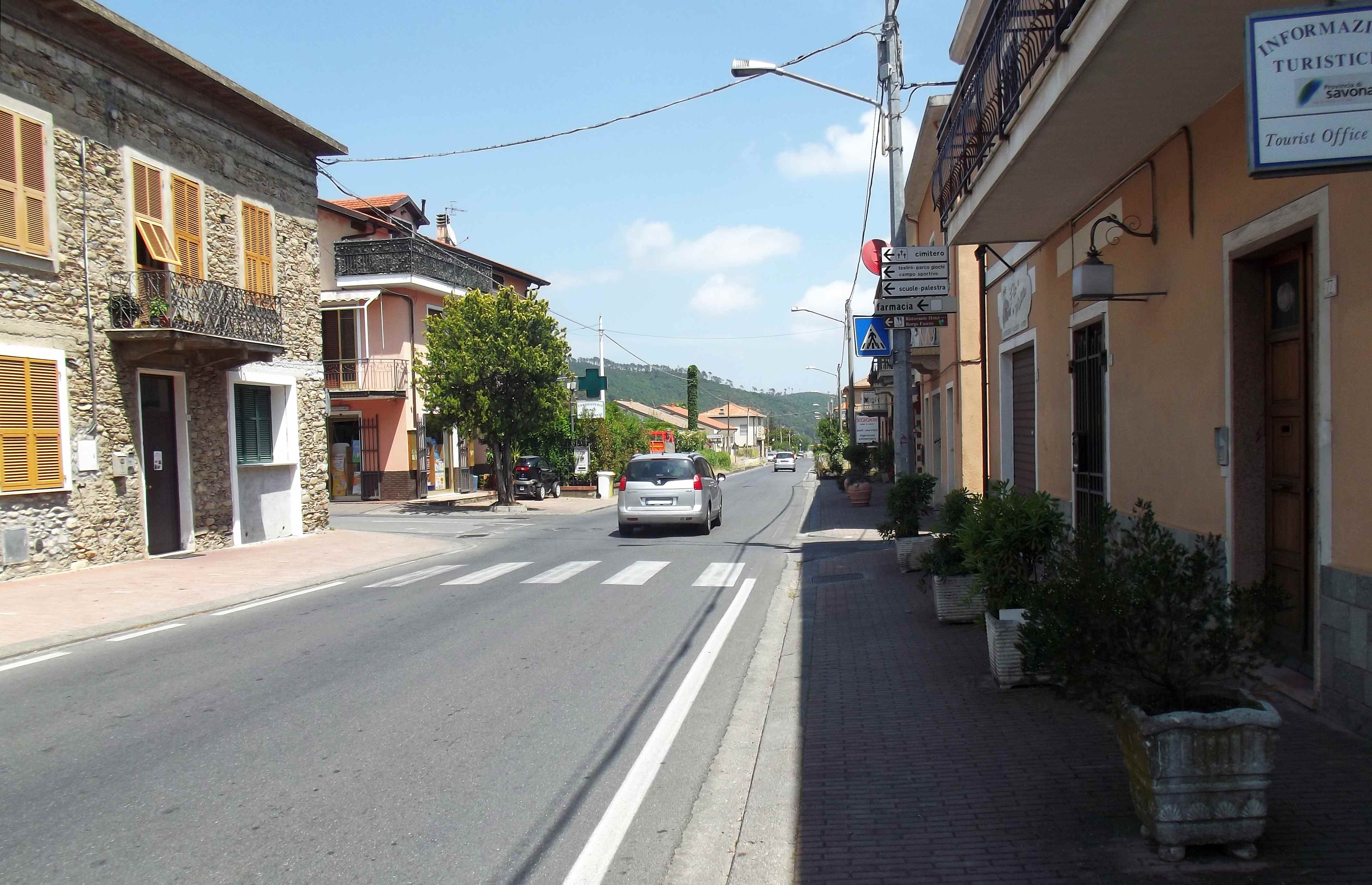 Former national road n. 453 della Valle Arroscia in Ortovero (SV, Italy)